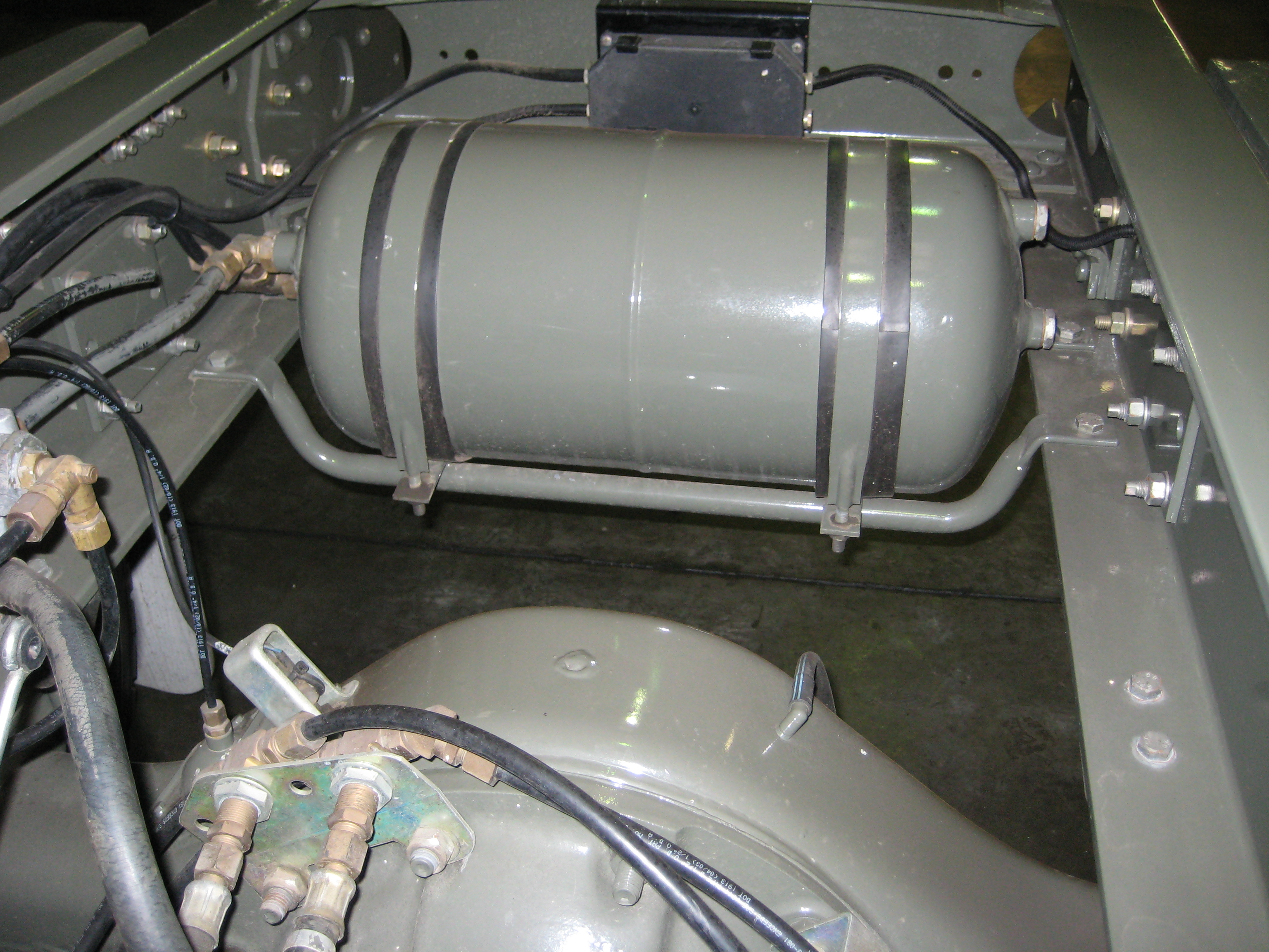 A truck rear chassis section with a reservoir for compressed air.